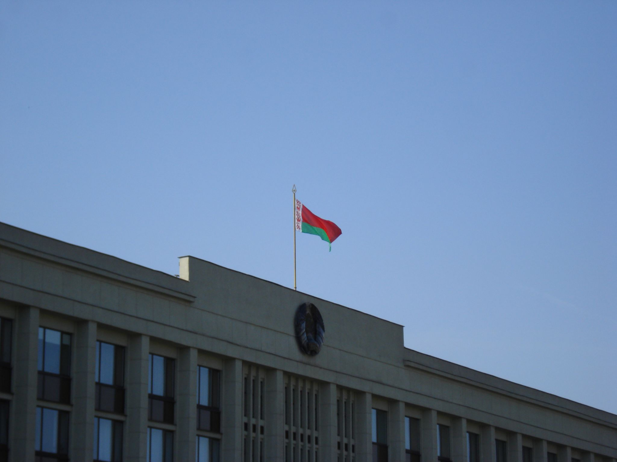 The source of the photograph is The photographer is Mike Wood (screename mikestuartwood).